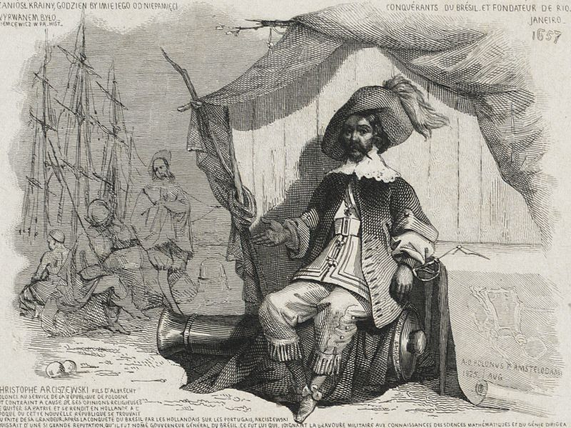 Krzysztof Arciszewski